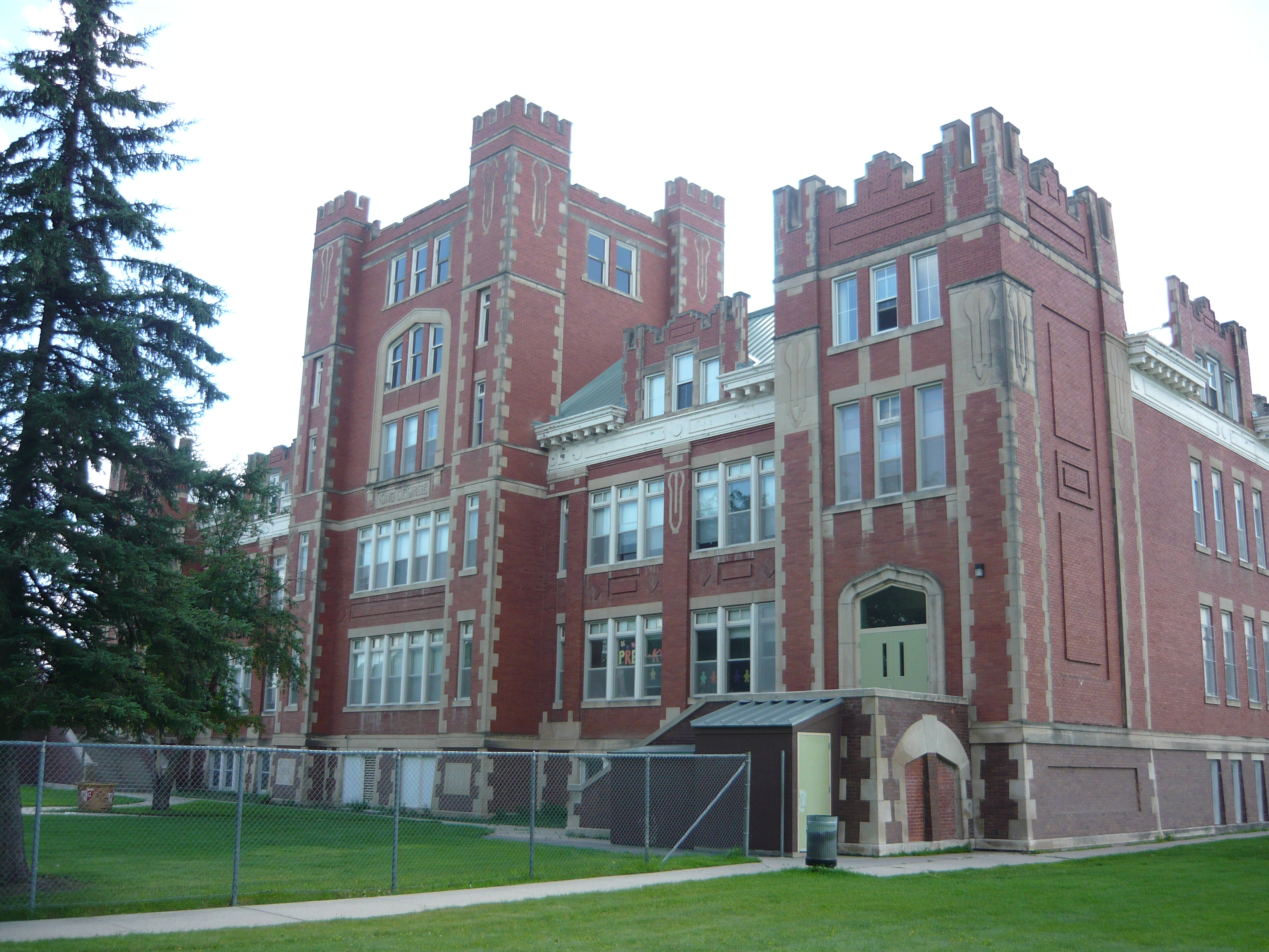 King George Public School (built 1912), 721 Avenue K South at 16th Street West, Saskatoon, Saskatchewan, Canada. Architect: David Webster.